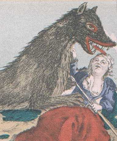 18th century print depicting the Beast of Gévaudan.